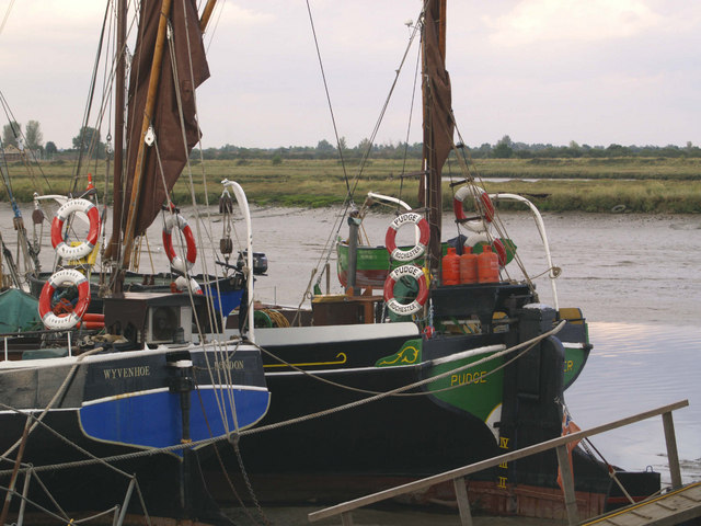 Thames sailing barges - Maldon The Thames Sailing Barges 'Wyvenhoe' and 'Pudge' moored at The Hythe, Maldon